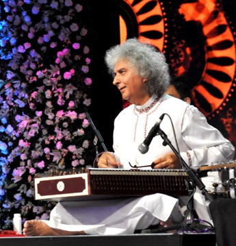 Pandit Shivkumar Sharma playing santoor at Jagjit Singh's anniversary.